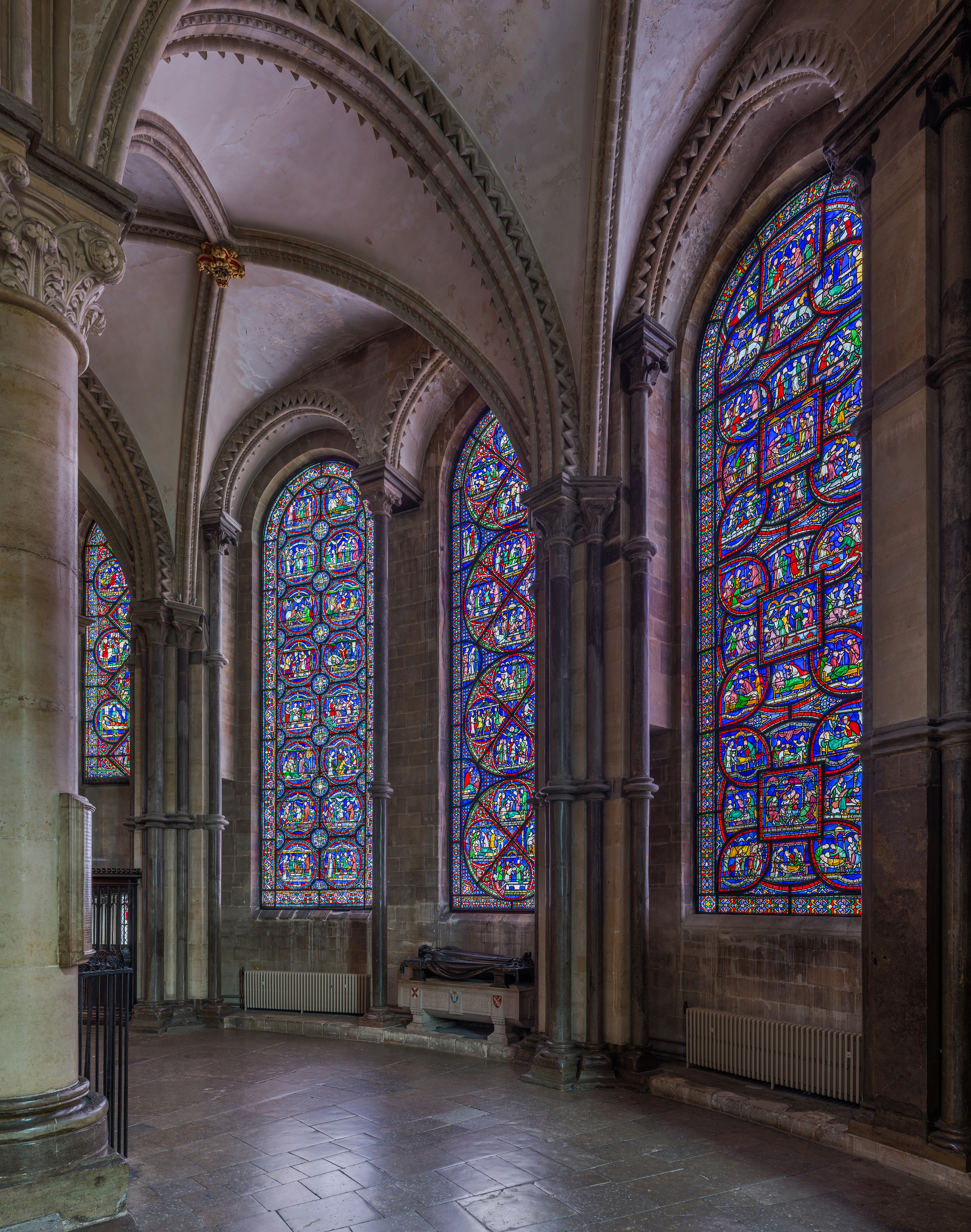 The stained glass of the southern side of Trinity Chapel in Canterbury Cathedral, Kent, England. These windows are known as the 'miracle windows', and depict the healing miracles that are said to have taken place at the tomb of St Thomas Becket in the Crypt between 1170 and 1220.